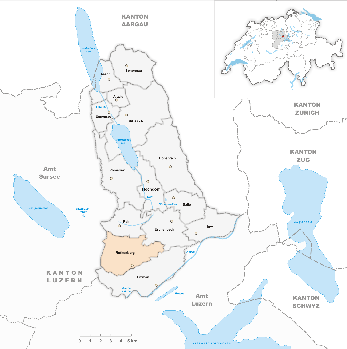 Municipality Rothenburg